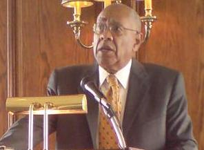 Chuck Smith, African-American businessman and Distinguished Eagle Scout, speaking at the University of SanFrancisco.